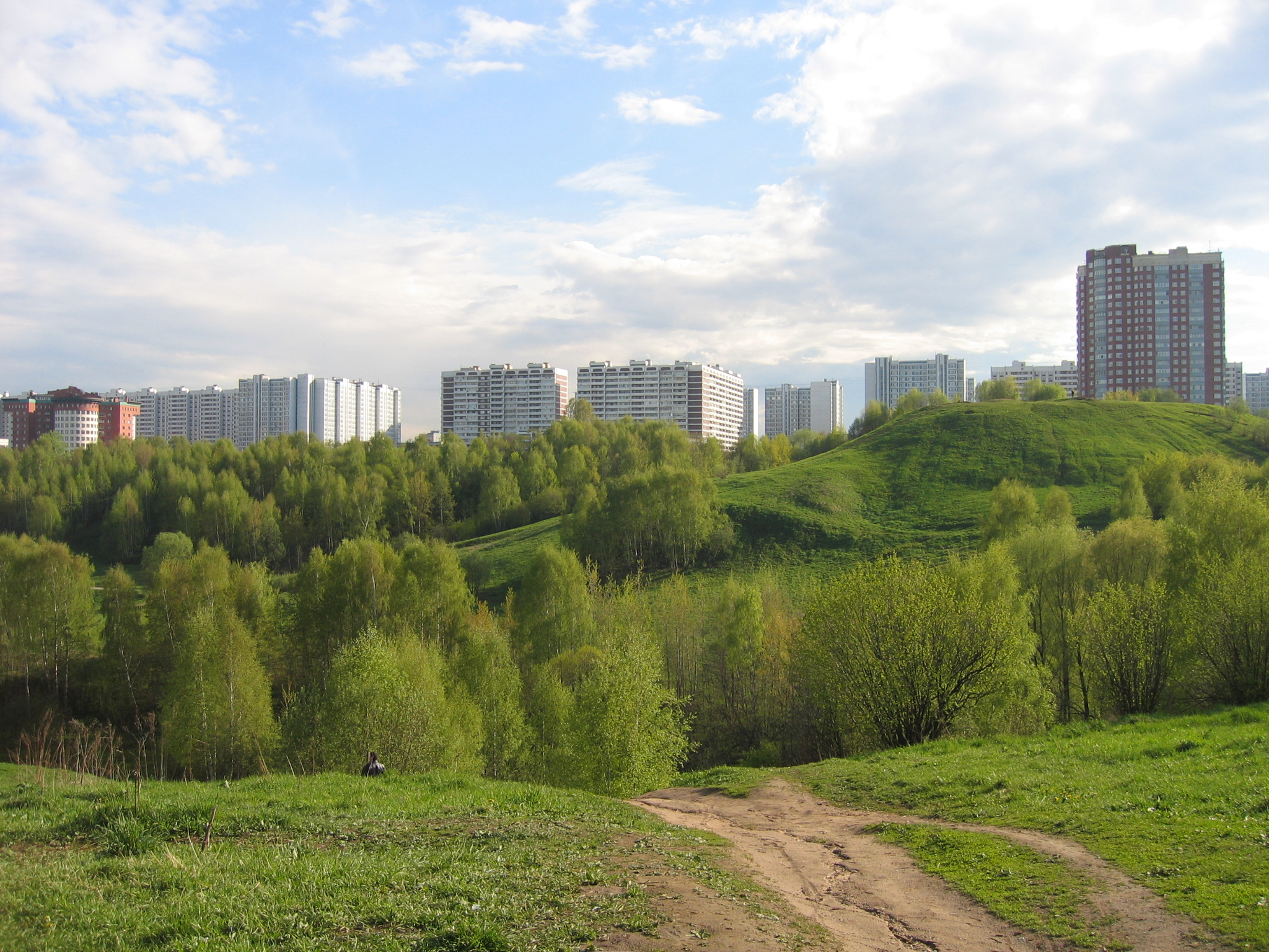 Krylatskoe Hills in Moscow